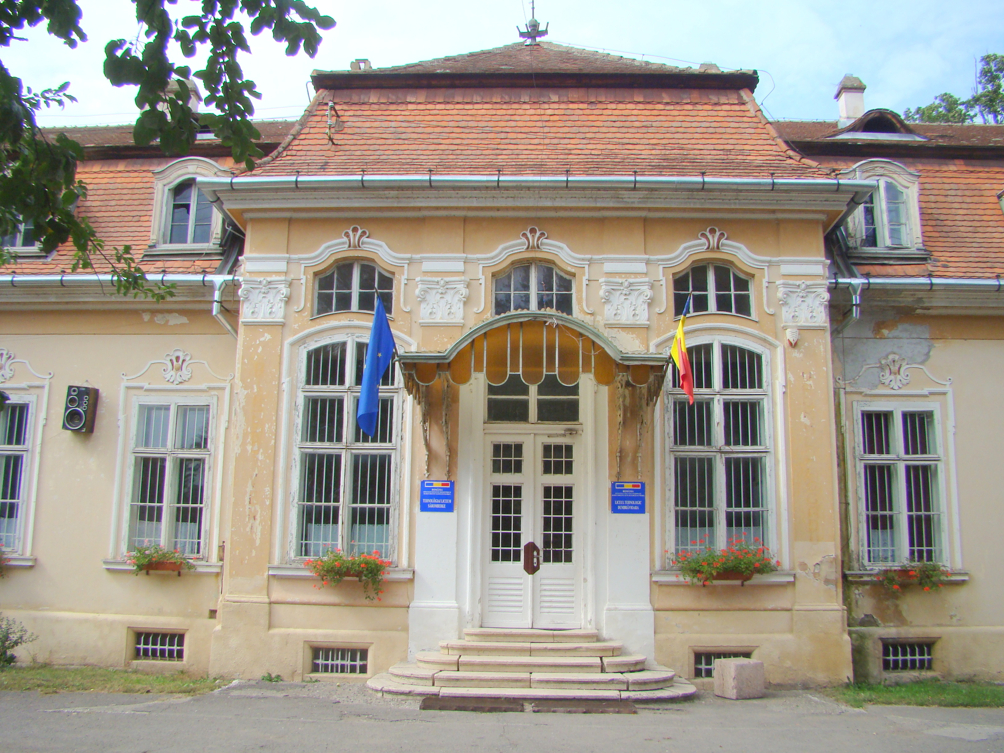 Teleki castle in Dumbrăvioara, Mureş county, Romania